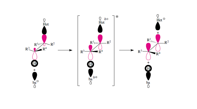 estado de transição